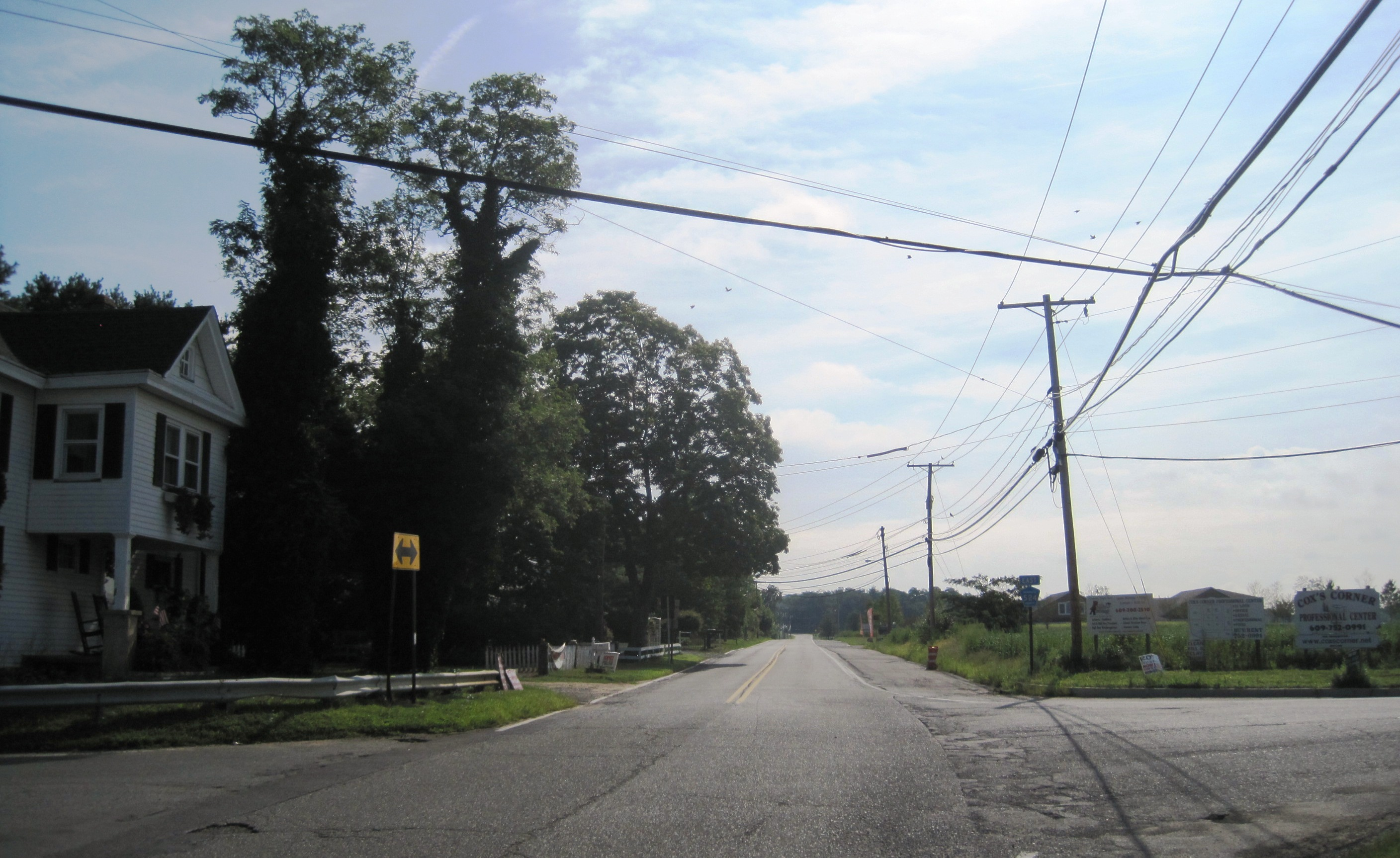 Photo of Coxs Corner, New Jersey, an unincorporated community within Upper Freehold Township. Photo taken along eastbound County Route 524 at Imlaystown-Hightstown Road (CR 43).